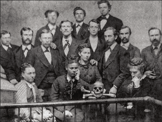 A photograph of the Syracuse University College of Medicine graduating class of 1876, including Sarah Loguen Fraser, the fourth African-American woman physician in the United States